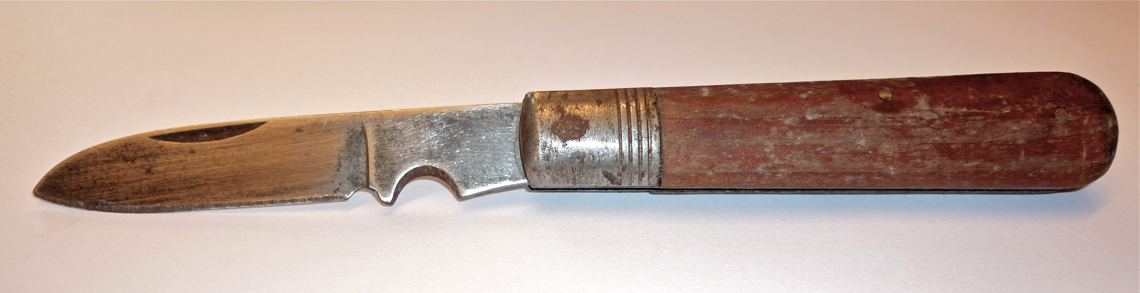 old cable knive